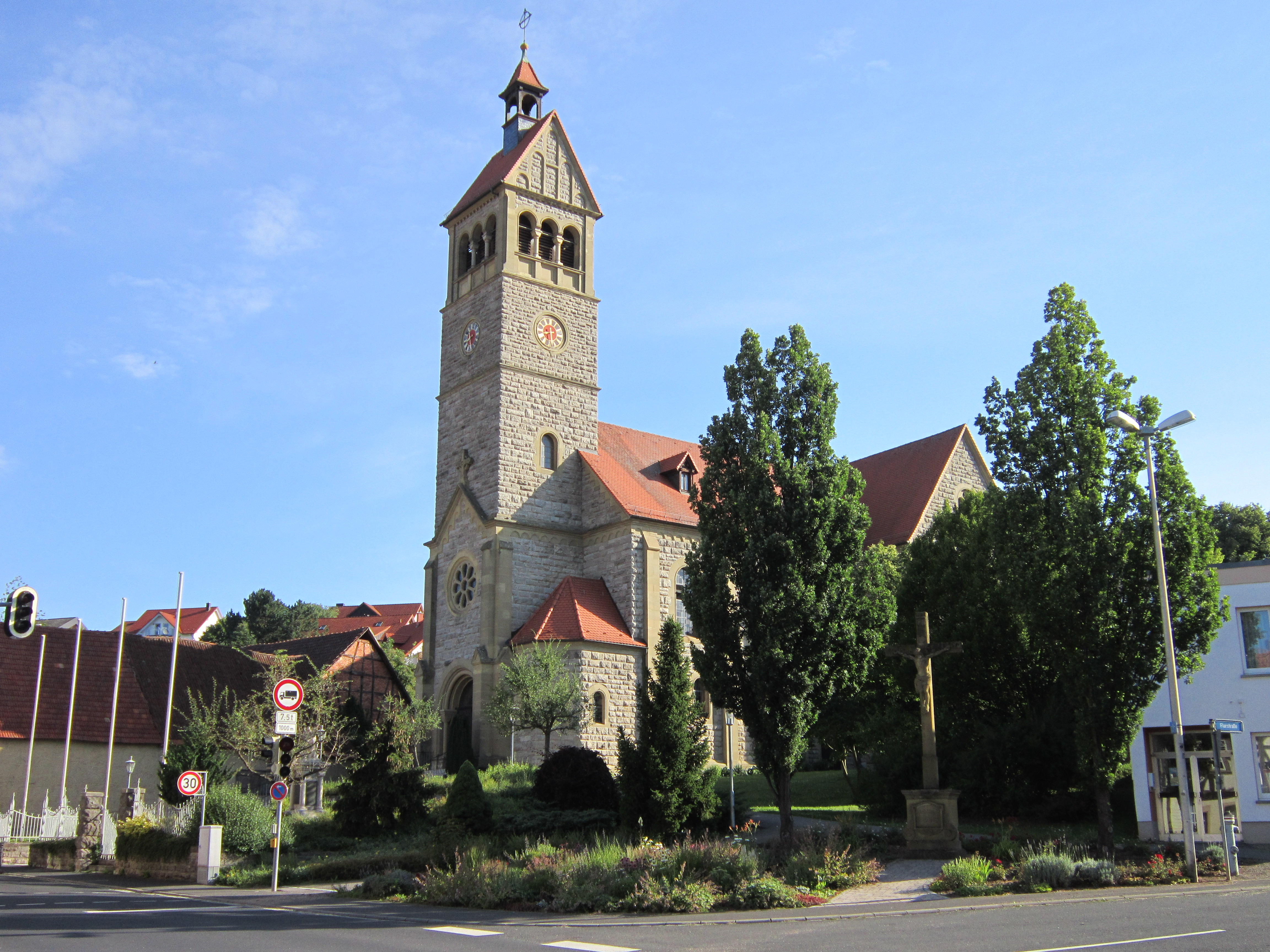 St.Laurentius Church in Reiterswiesen, a quarter of the German spa town Bad Kissingen in Lower Franconia (Bavaria)